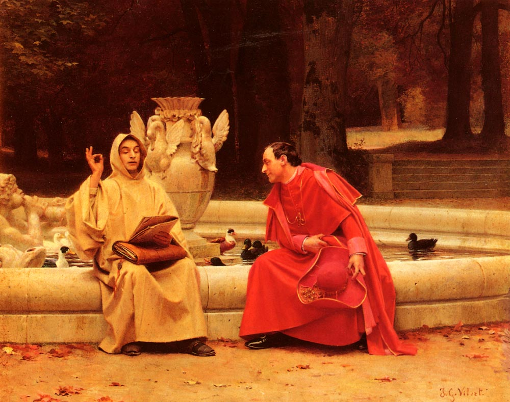 Anti-clerical painting by Jehan Georges Vibert.